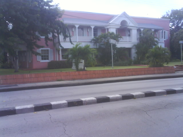 The Caribbean Tourism Organization at Lower Collymore Rock Road. (Located in the Bridgetown neighbourhood of Henrys), St. Michael.